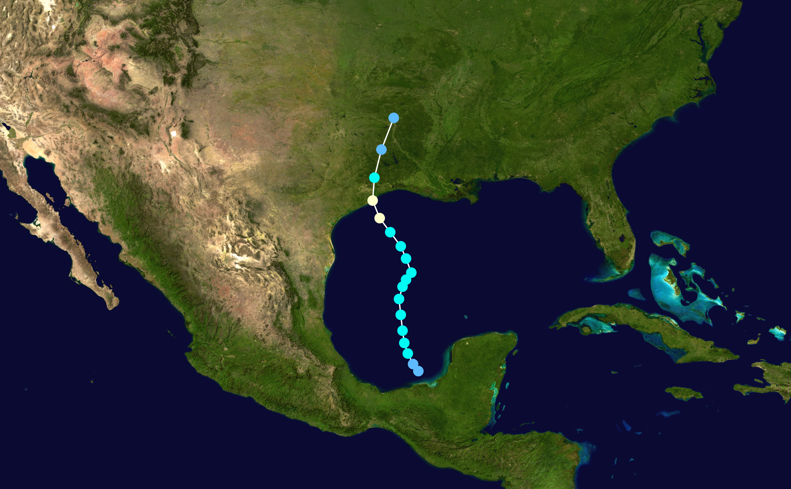 Hurricane Jerry (1989) track. Uses the color scheme from the Saffir-Simpson Hurricane Scale.